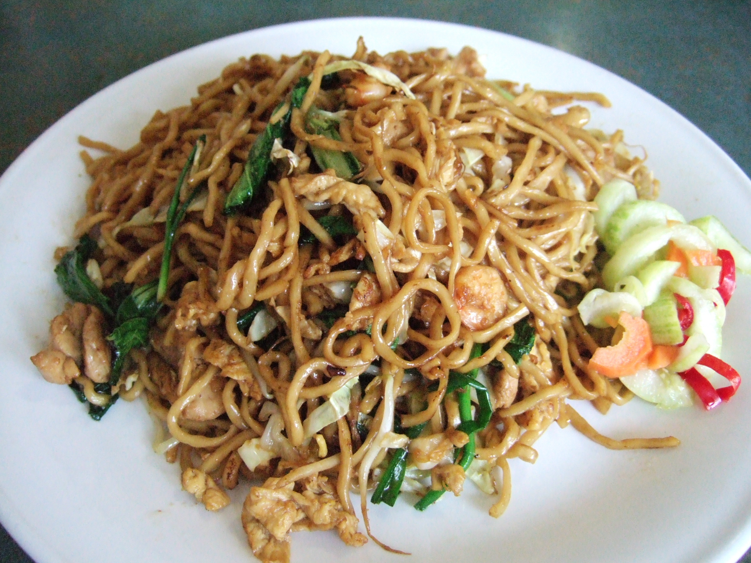 Fried noodle, Jakarta, Indonesia